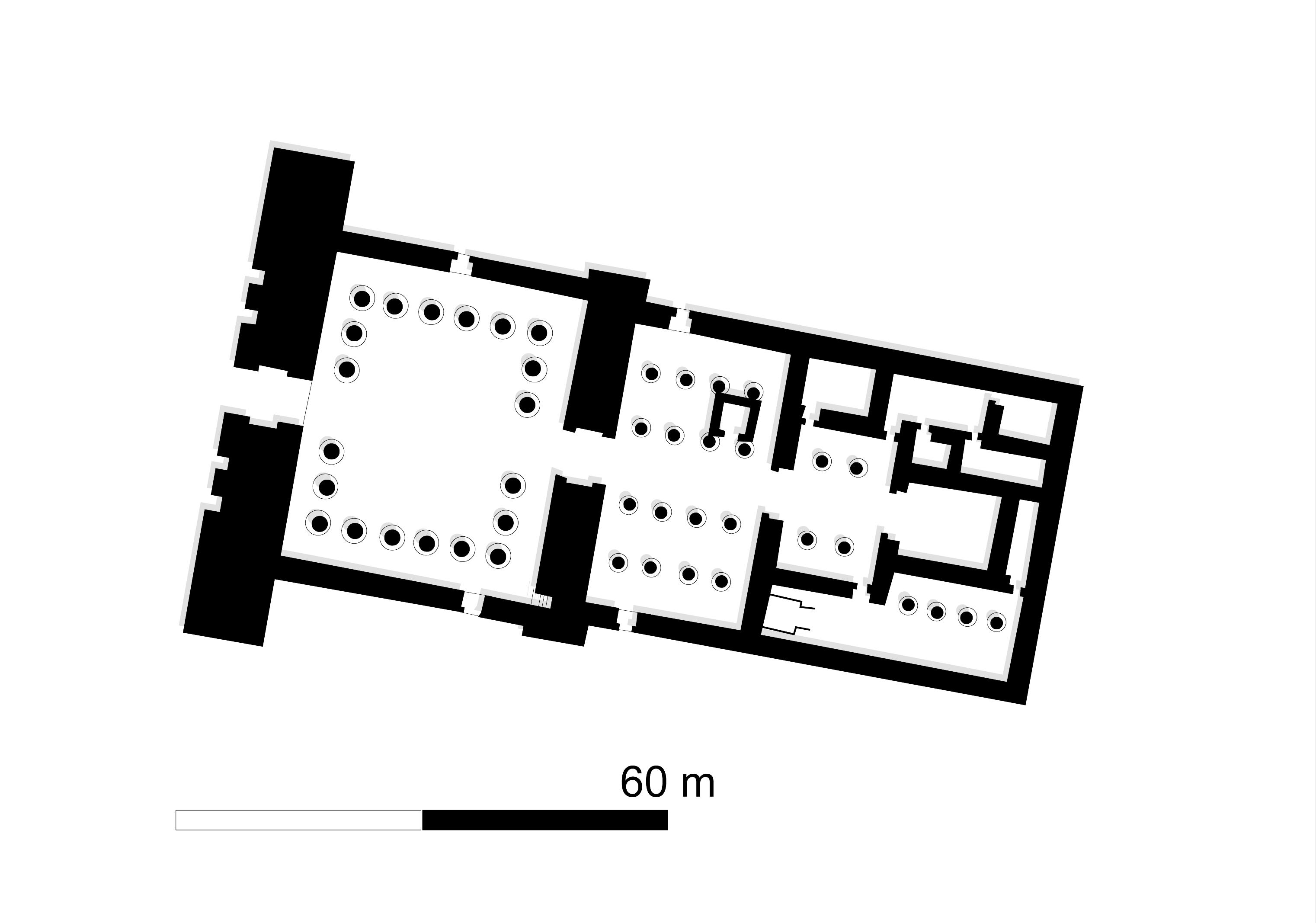 Plan of the temple of king Taharqa (25th Dynasty, built at Sanam, Nubia, modern Sudan)